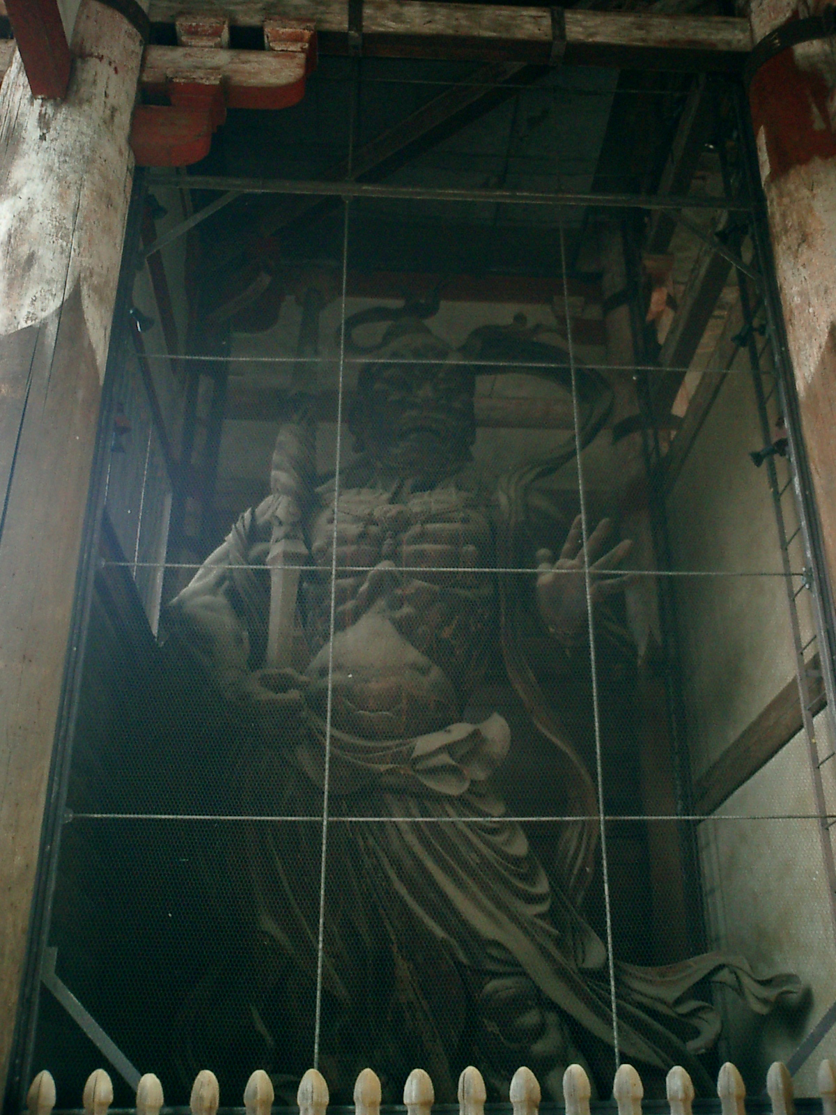 Nara, Japan